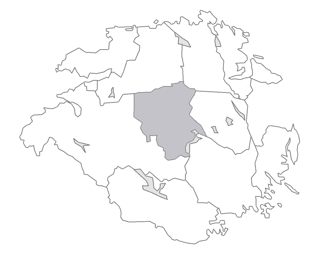 Map describing the location of Villåttinge Hundred in Södermanland County, Sweden.